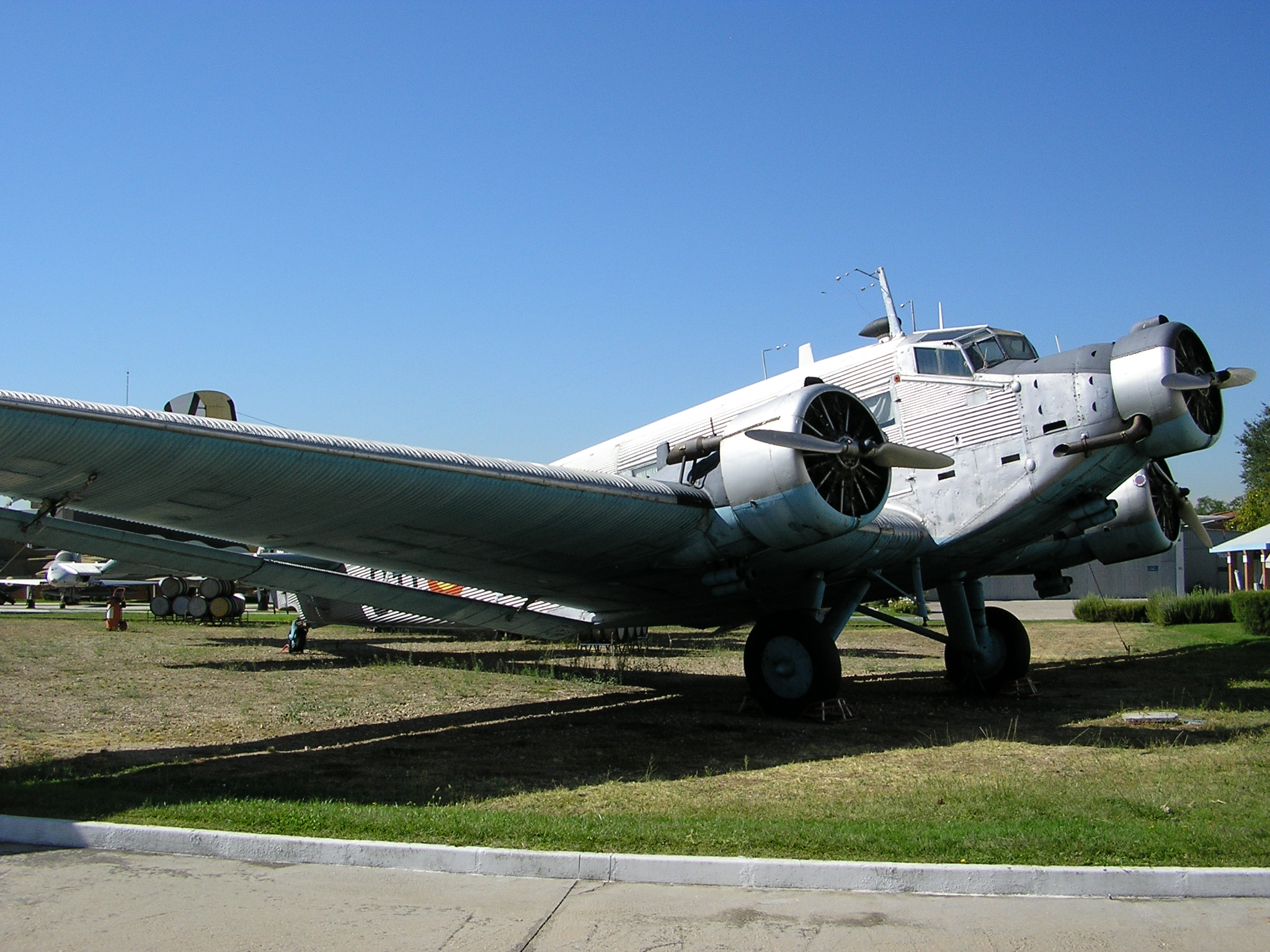 Junkers Ju 52 in Madrid aviamuzee.